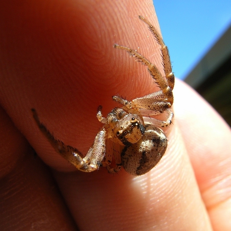 Xysticus croceus from Japan.